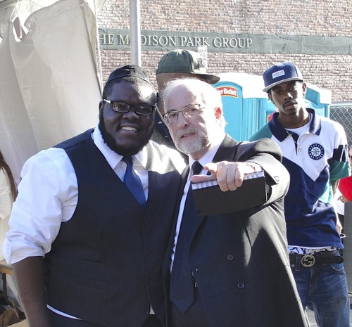 RabbiBZQNissim